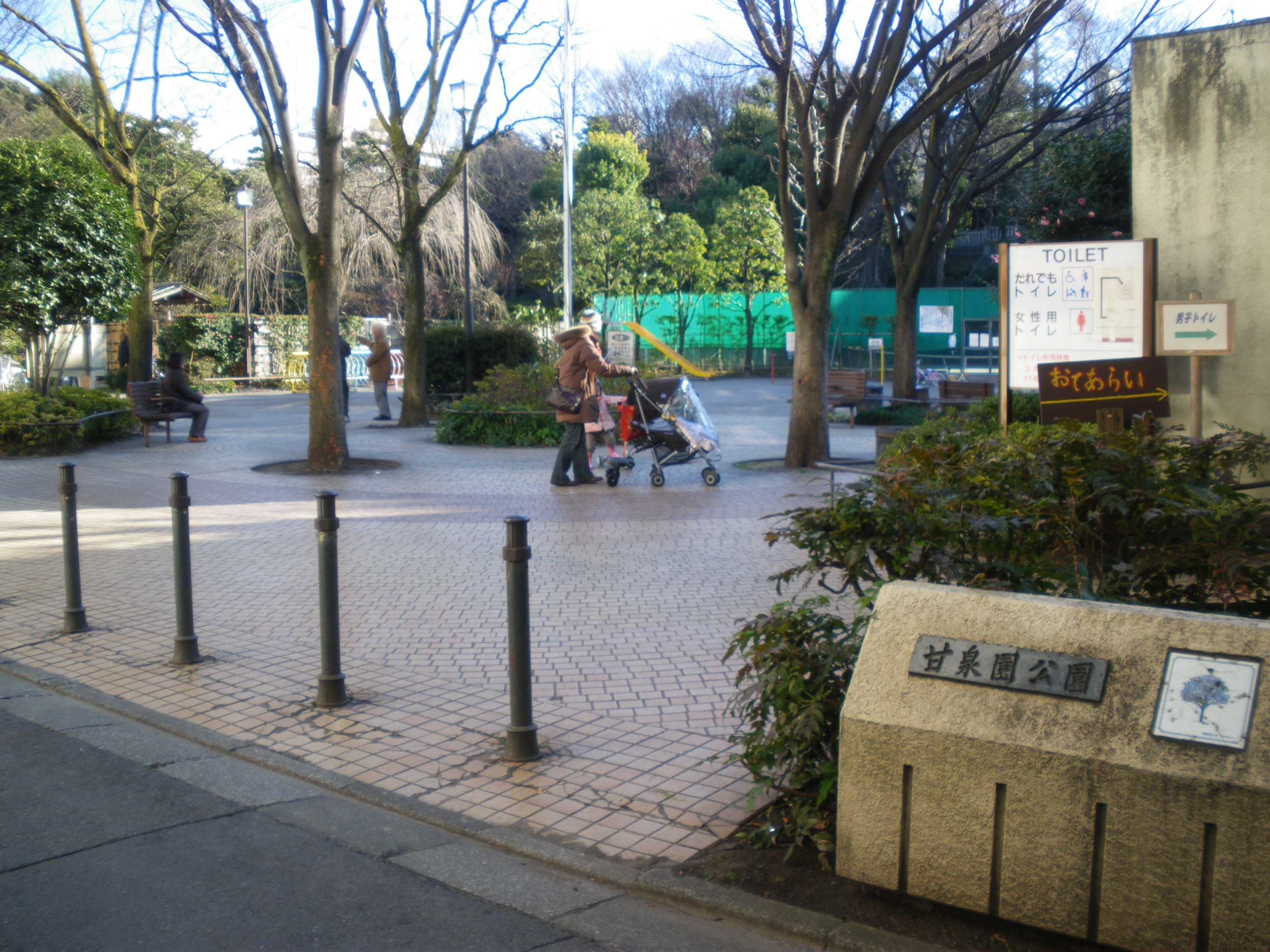 A photo of Kansenen Park ,Nishiwaseda,Shinjuku-ku,Tokyo,Japan.